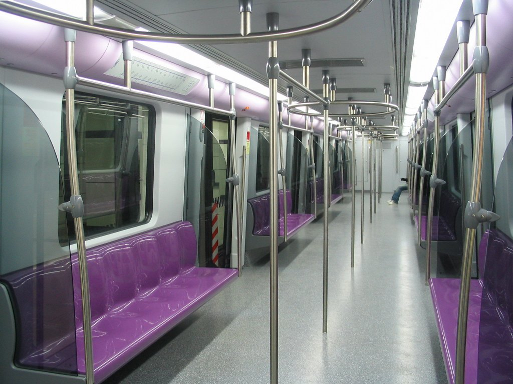 上海軌道交通4號線列車車廂 Interior of Shmetro Line 4 Train